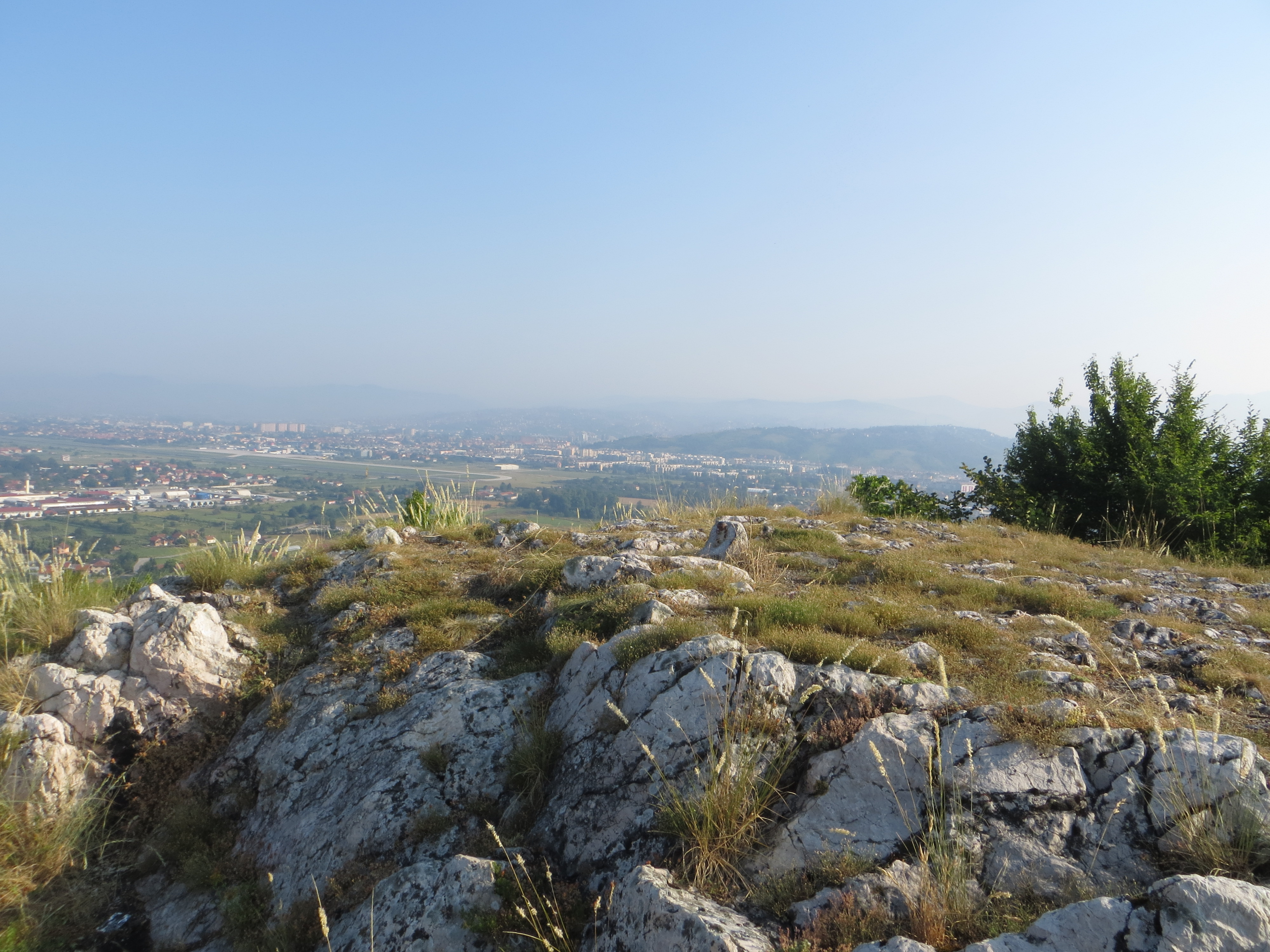 Cultural heritage is composed from remains of prehistoric fort, late antiquity fort wall pieces and church foundations from the same time period. This image was uploaded as part of Trace of Soul 2015.